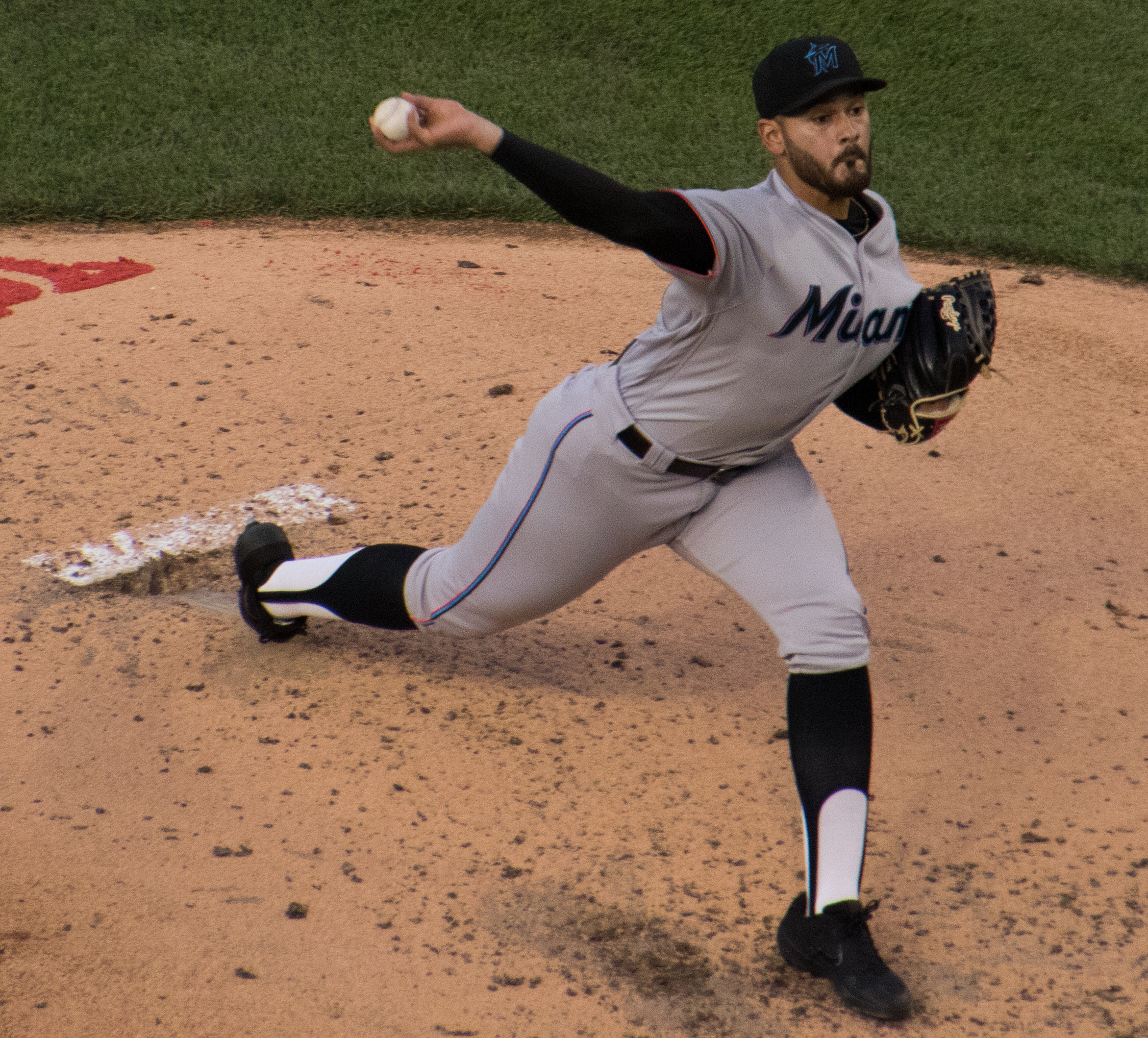 Pablo Lopez of the Miami Marlins delivers a pitch during a 2019 game at Nationals Park in Washington, D.C.